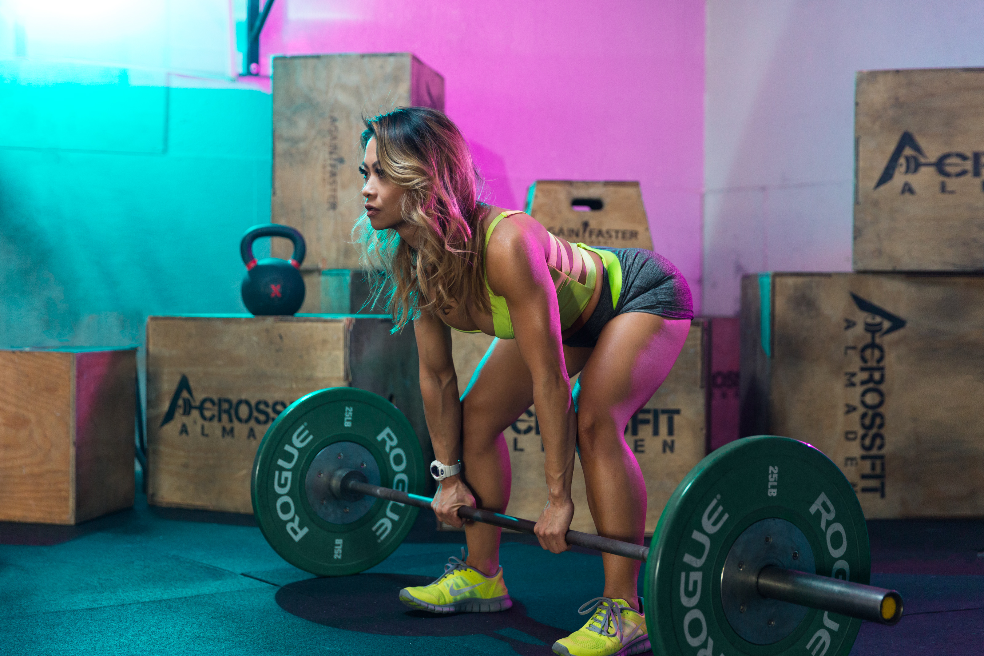 Kathy Nguyen @fitgoddess55 performing a deadlift